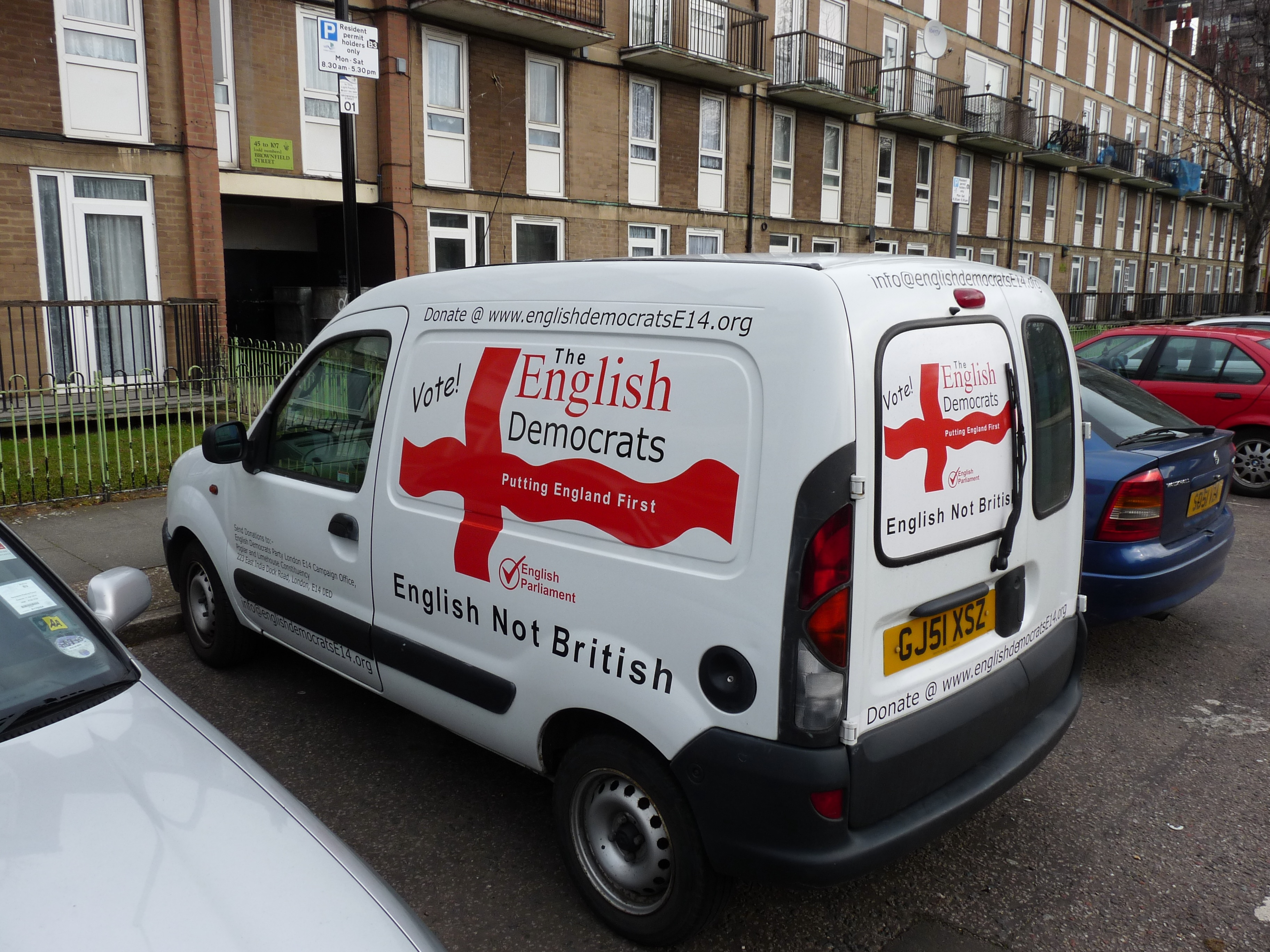 A Renault Kangoo van owned by the English Democrats, a political party with candidates in England campaigning for an English parliament.